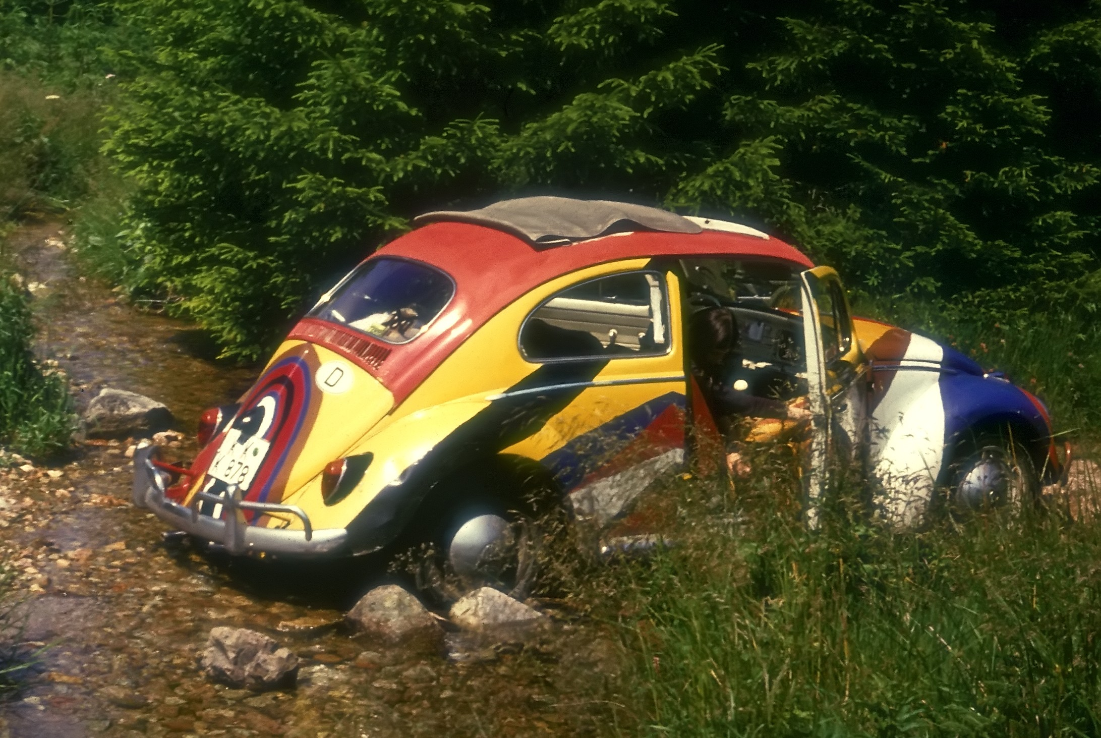 Pop-style Volkswagen Beetle painted by hand in Germany 1974.